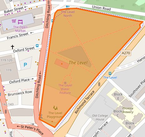 The Level is an urban park in central Brighton, on the south coast of the United Kingdom. The park is a triangle of 8 acres bounded by Union Street to the north, Richmond Terrace (A270) to the east and Ditchling Road (A23) to the west.